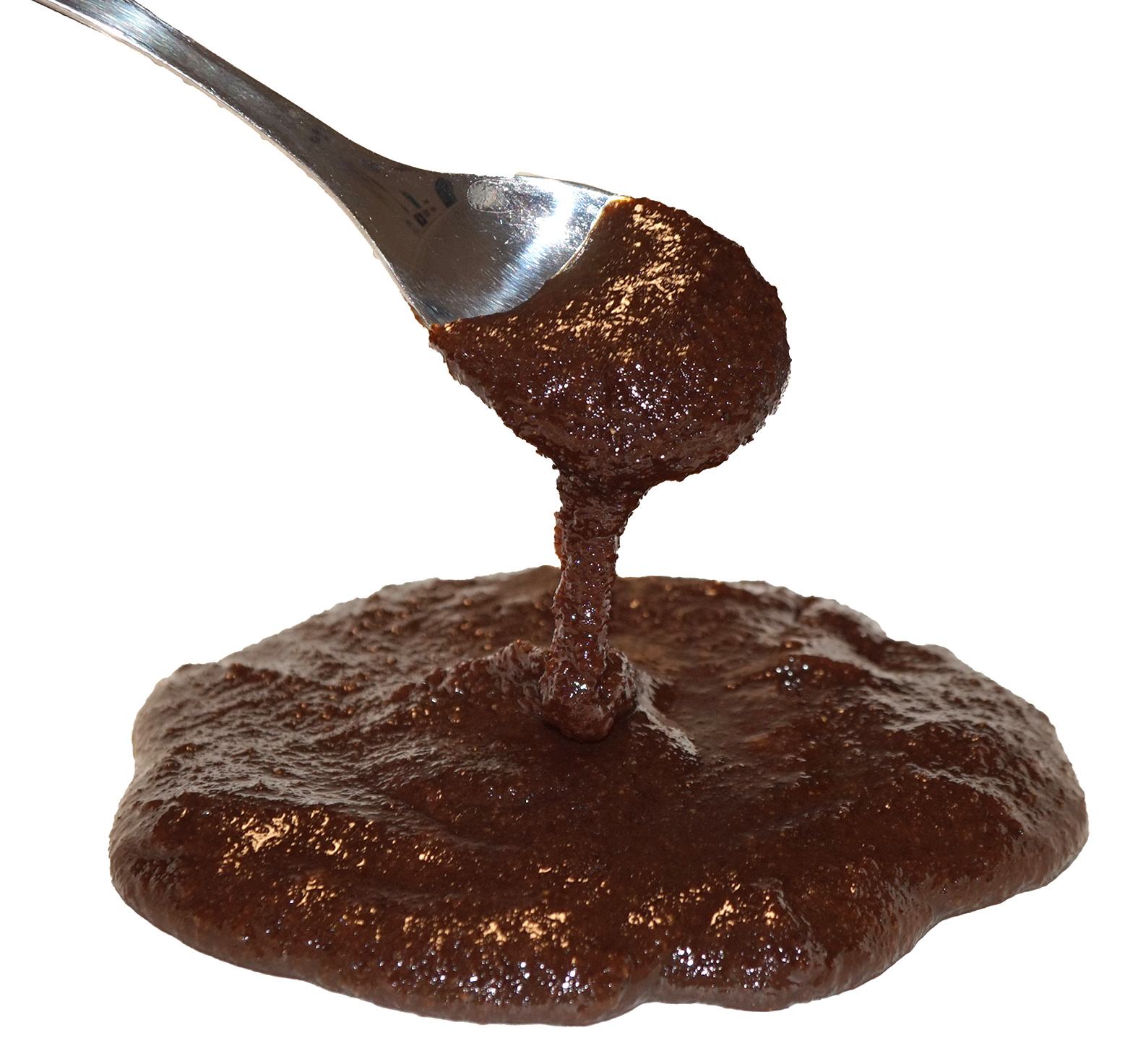 Mämmi raised with a spoon. Producted by Hoviruoka.